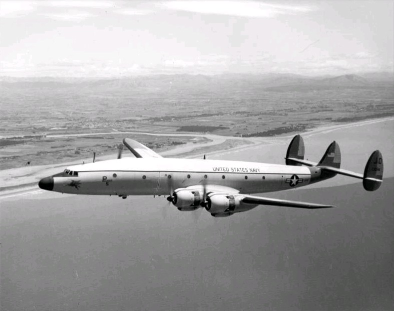 A U.S. Navy Lockheed C-121J Constellation (BuNo 131644, c/n 1249A-4145) of squadron VX-6 in flight near Christchurch, New Zealand, on 27 November 1965. The aircraft was named "Pegasus". This aircraft crashed at Williams Field, McMurdo Sound, Antarctica, on 8 October 1970.